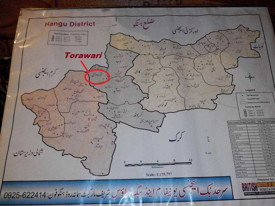 torawairi map.